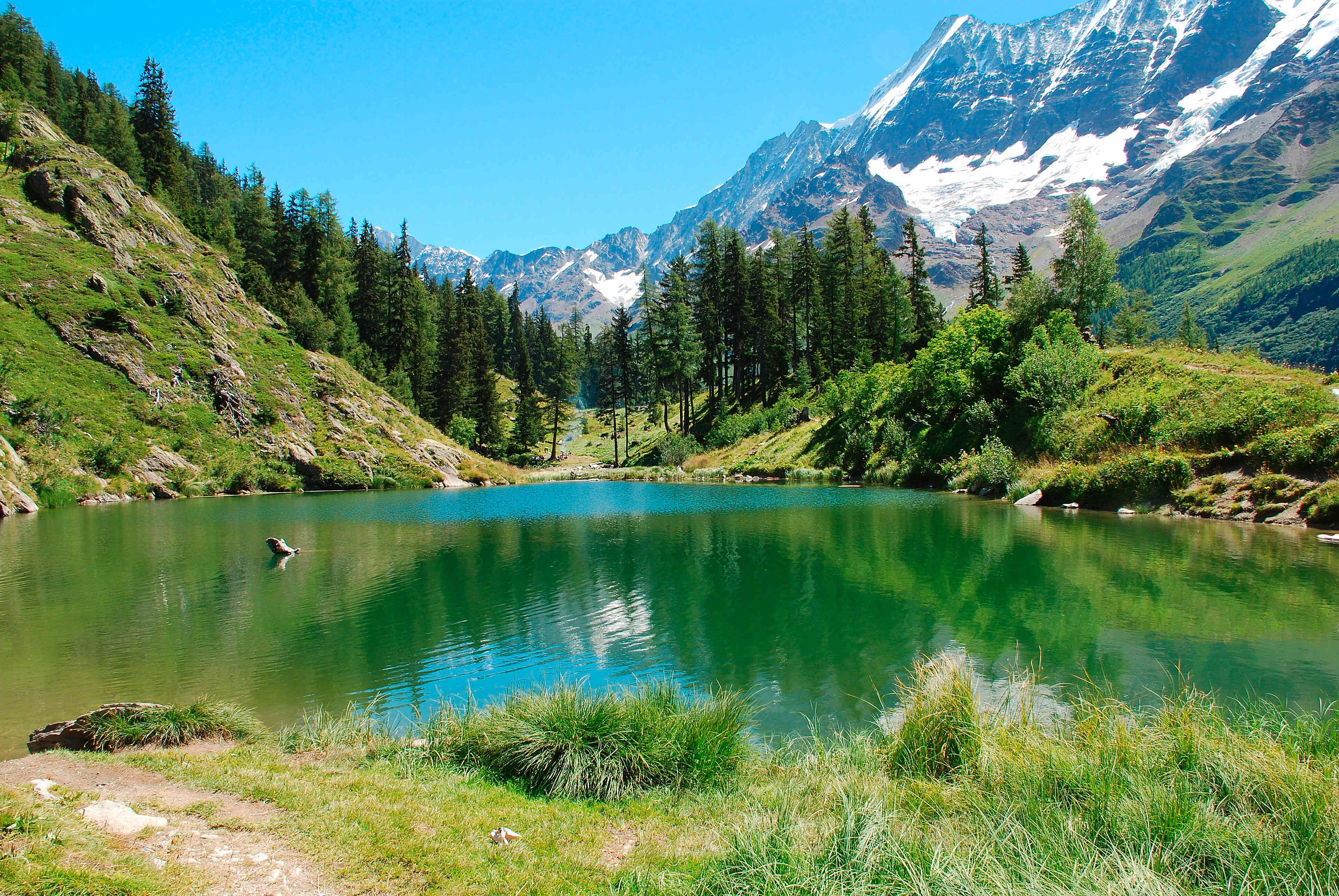 Schwarzsee (black lake) near Blatten at Lötschental, Switzerland